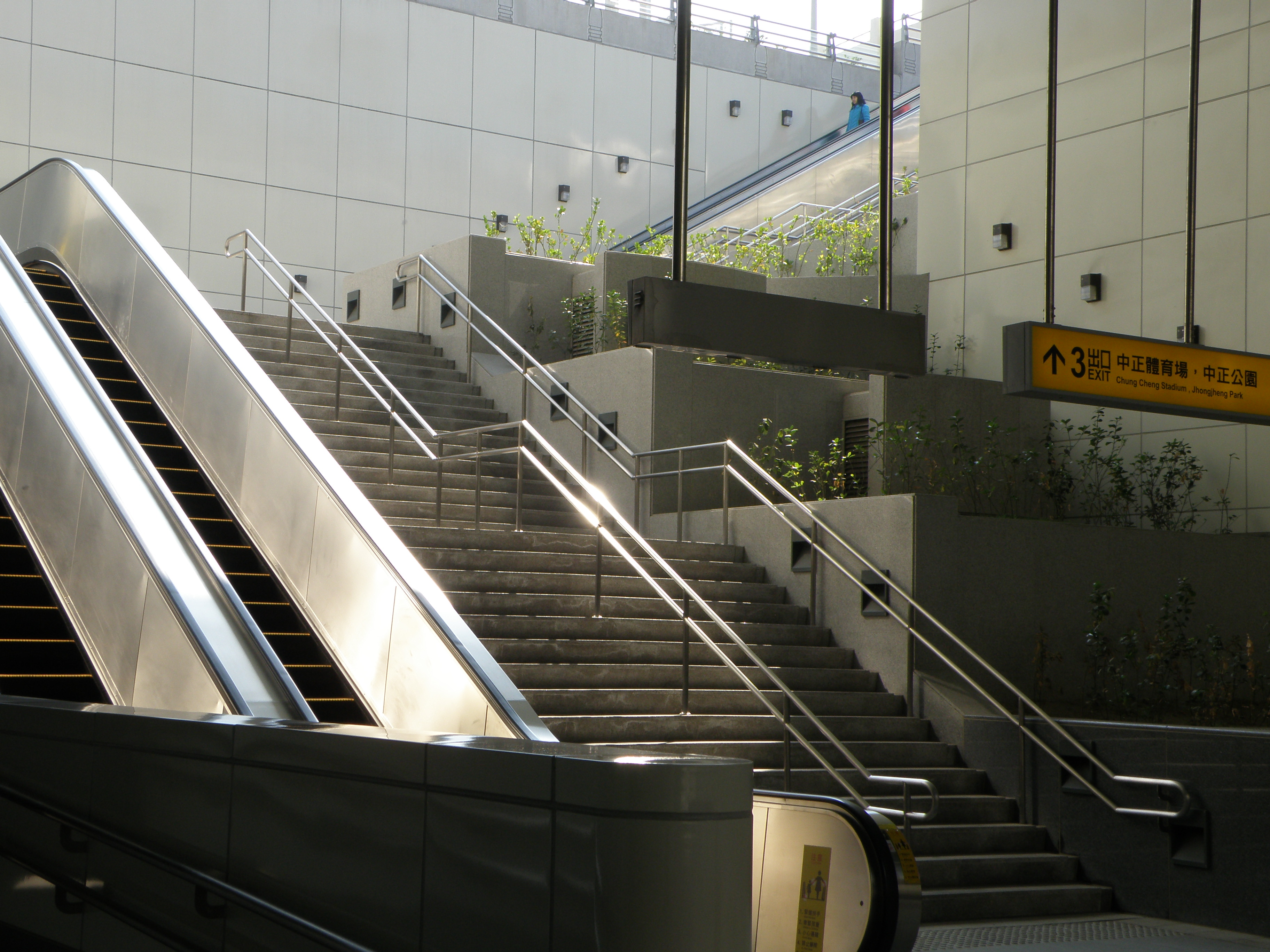 Exit No.3 of Martial Arts Stadium Station, Kaohsiung Mass Rapid Transit.